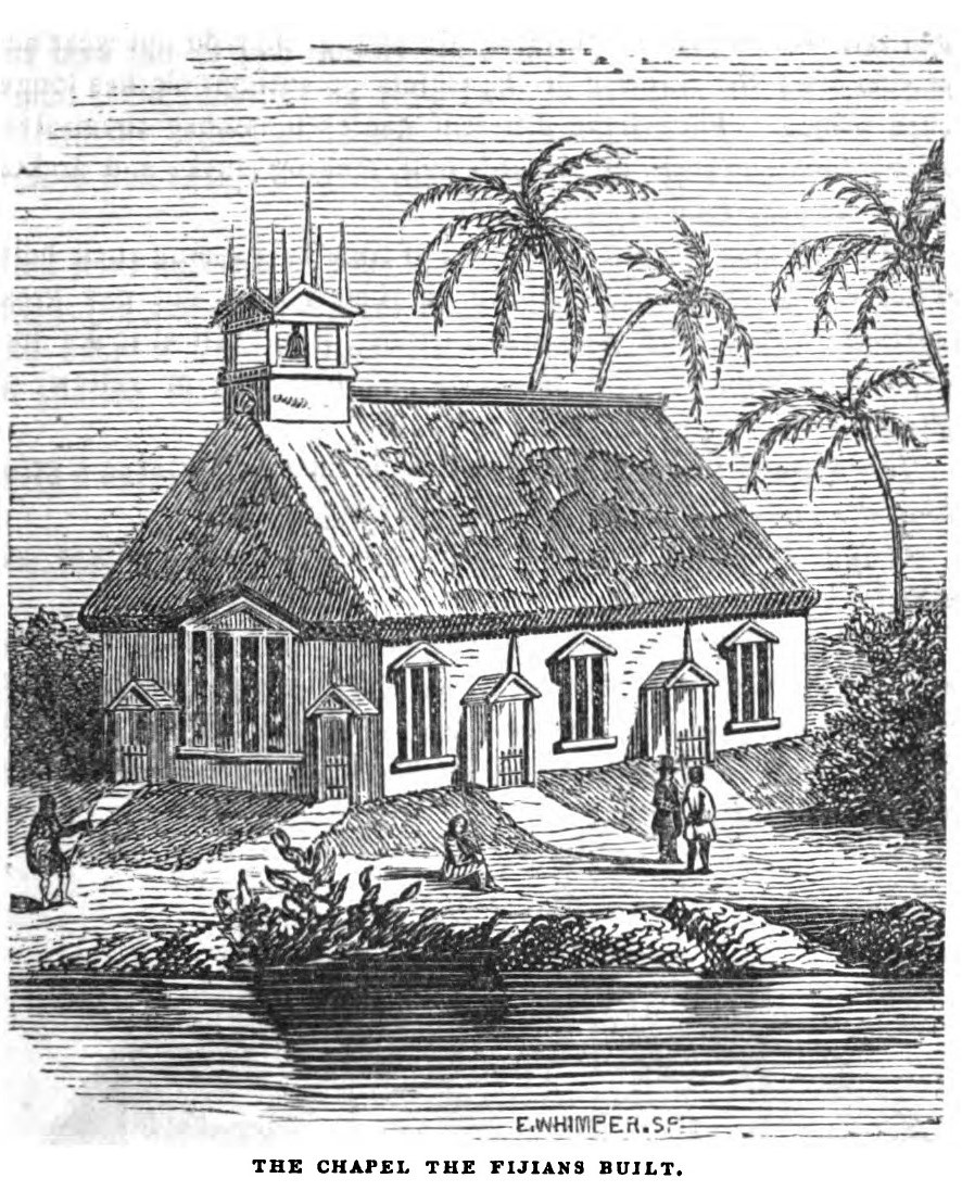 The Chapel the Fijians Built - Aunt Elizabeth's Missionary Voyage (p.19, February 1859, XVI)